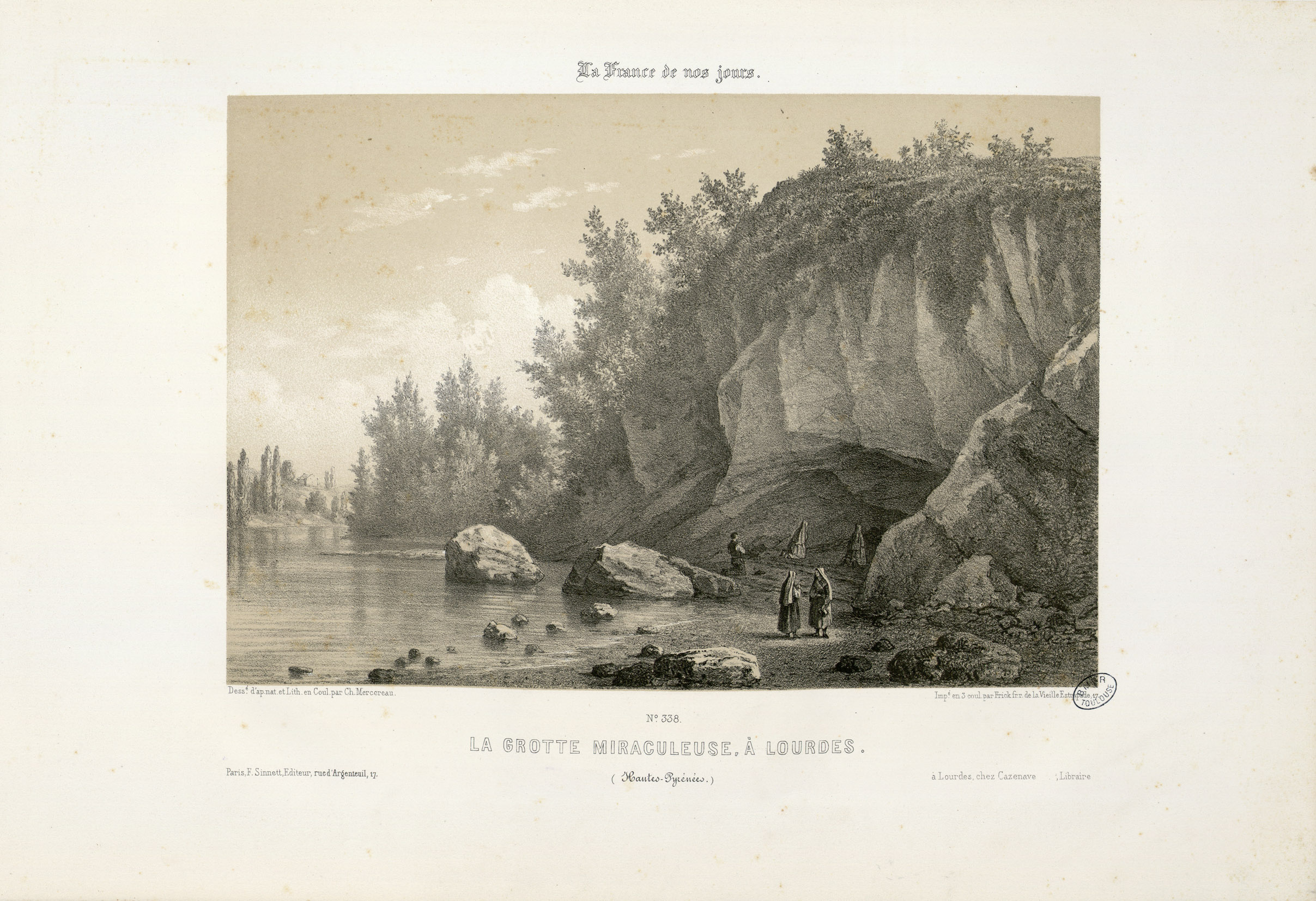 The miraculous Grotto of Lourdes (Hautes-Pyrénées, France). A few year after the apparitions (1858) and before new constructions (1864).